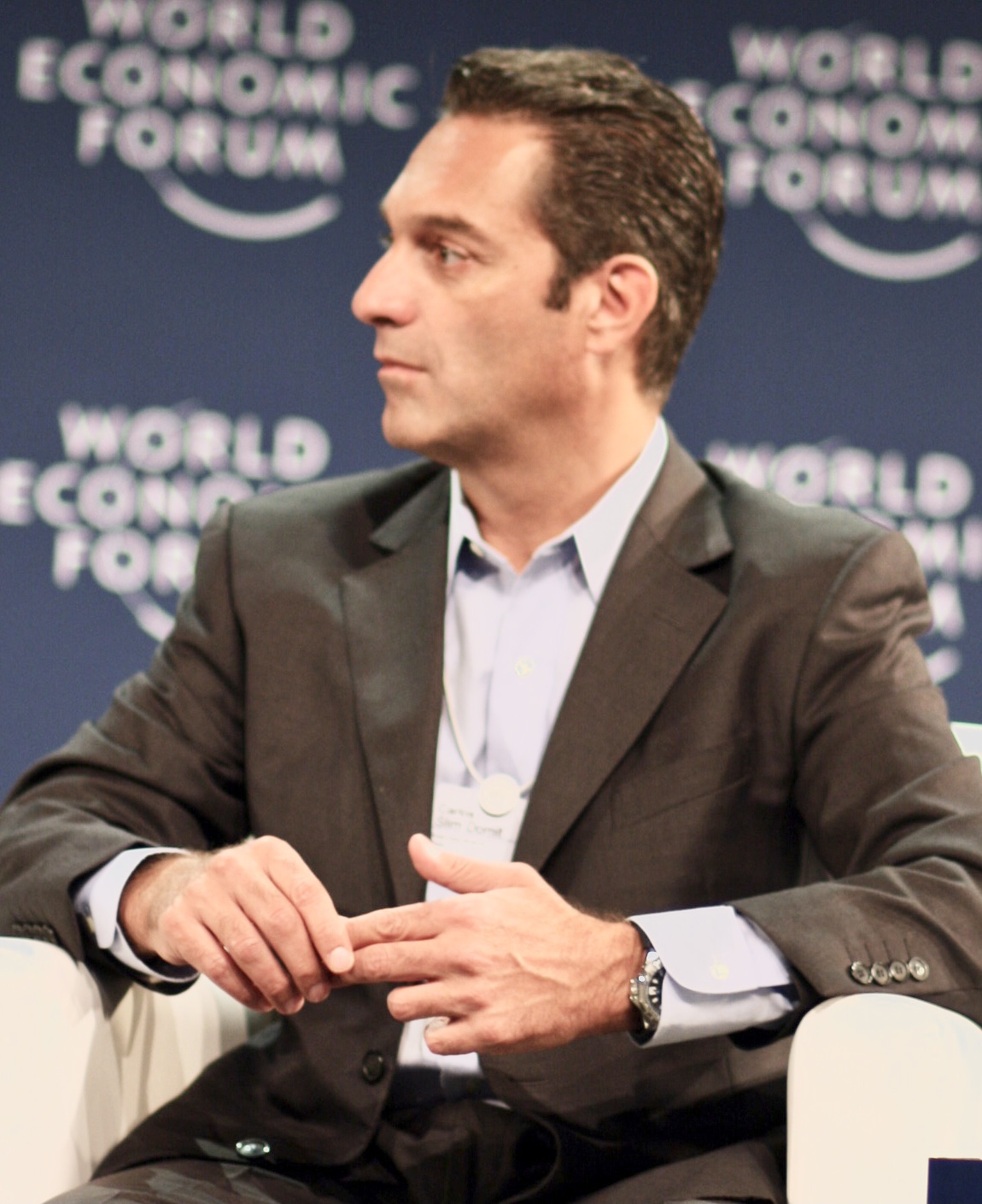 PUERTO VALLARTA/MEXICO, 18APR12 - Carlos Slim Domit during the B20 Press Conference. Copyright World Economic Forum ( by Josef Kandoll Wepplo